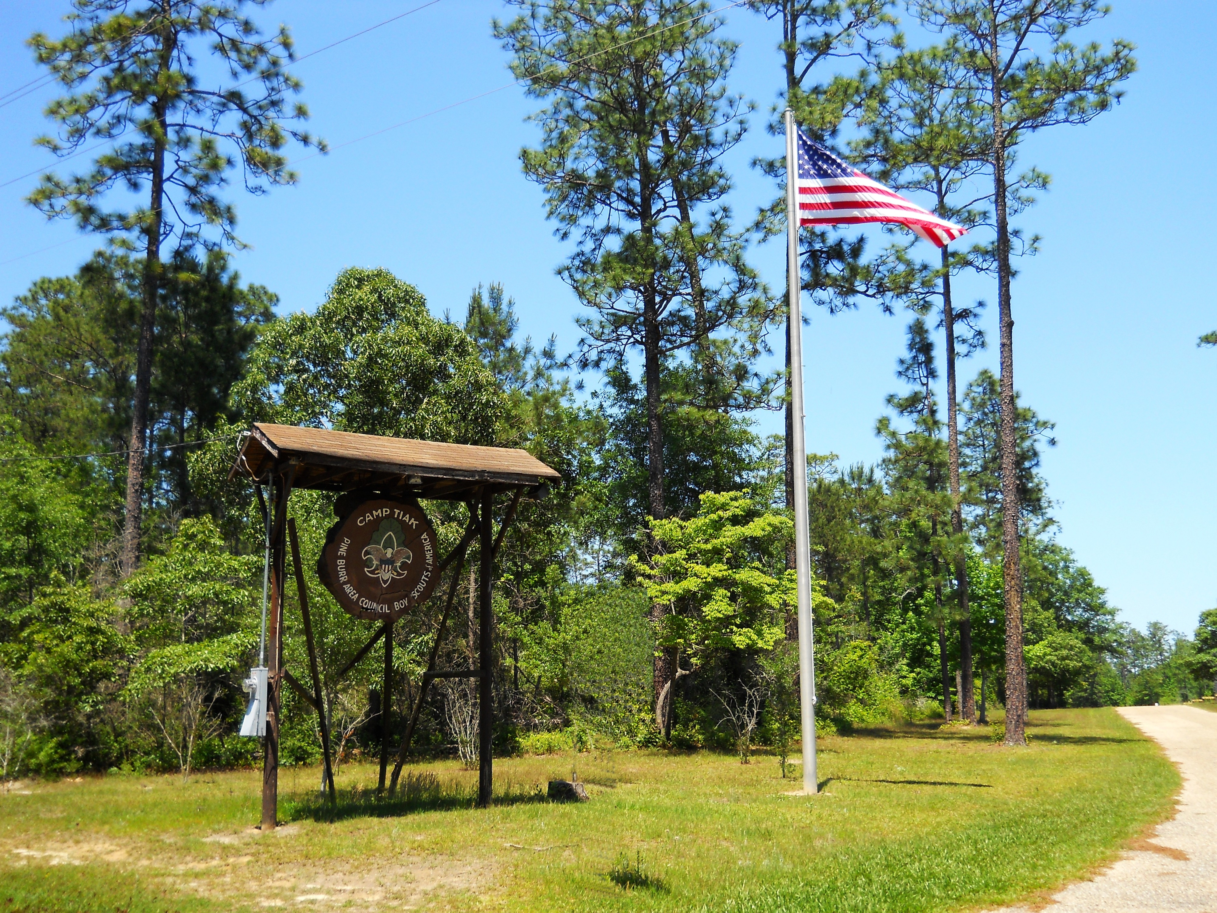 Entrance to Camp Tiak, Pine Burr Area Council, Boy Scouts of America, located at Fruitland Park, Mississippi, USA.